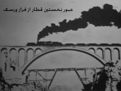 First train passes over Veresk Bridge, (From the book "Travel literature of Reza Shah (1976)")